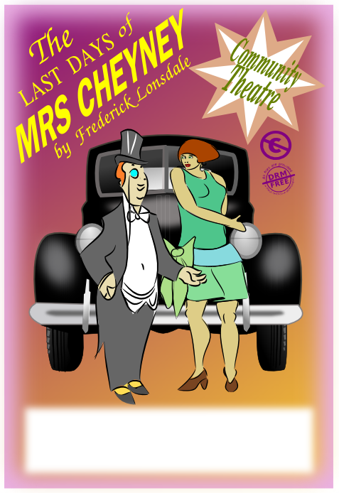 public domain poster for stage revival of "The last of Mr Cheyney" by Frederick Lonsdale. (Please note, the poster says "The Last Days...". It should be "The Last ...")